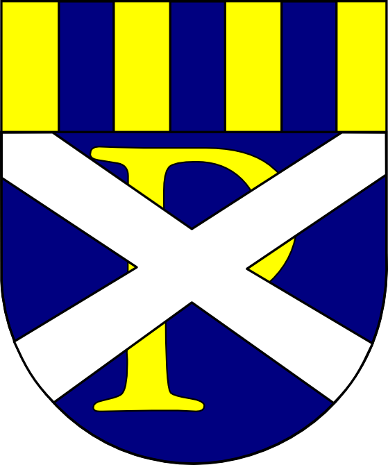 Coat of arms (shield only) of Konštantín Schuster, bishop of Košice, Kingdom of Hungary (1877 - 1887), bishop of Vác, Hungary (1886 - 1899)